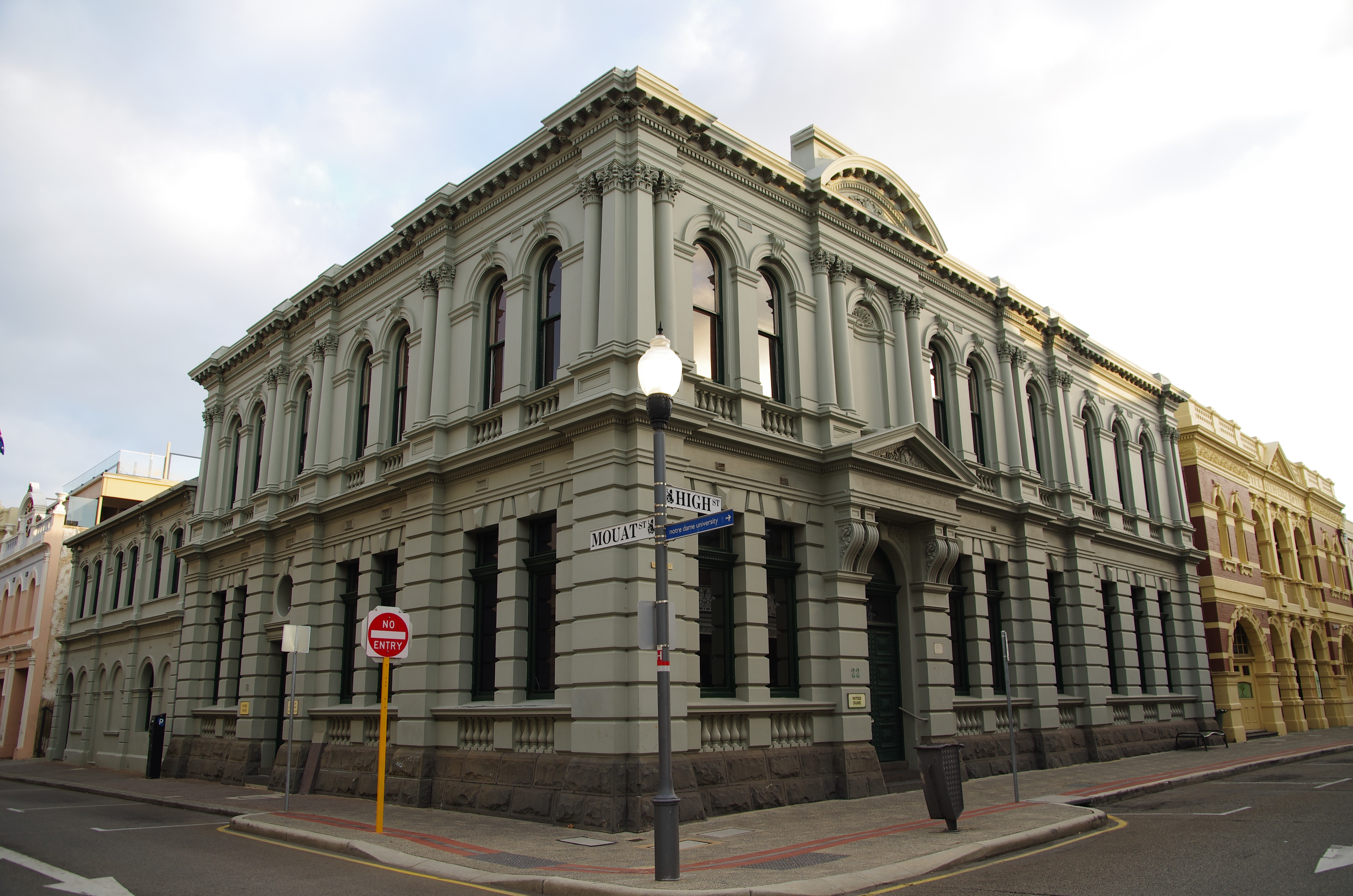 Object location32° 03′ 19.36″ S, 115° 44′ 36.02″ E Westpac bank building